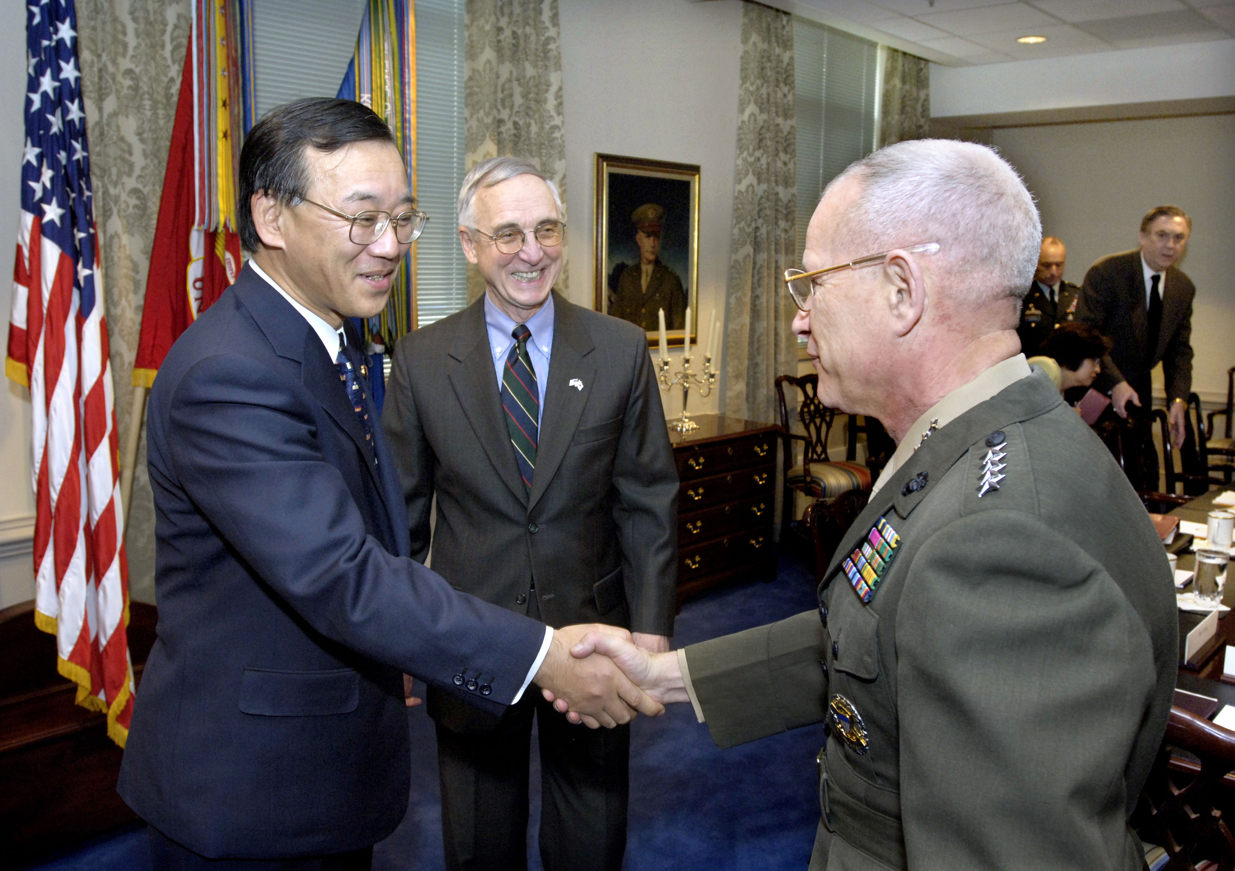 Deputy Secretary of Defense Gordon England (center) introduces Assistant Commandant of the Marine Corps Gen. Robert Magnus (right) to Japanese Minister of Finance Sadakazu Tanigaki (left) in the Pentagon on Jan. 13, 2006. Tanigaki met with England, Secretary of Defense Donald Rumsfeld and other senior officials.